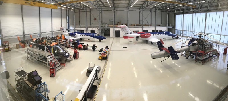 EAA hangar interior